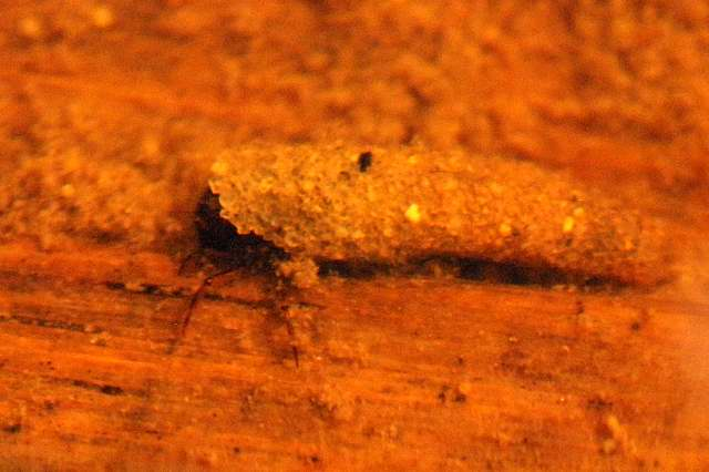 Apatania muliebris from Commanster, Belgian High Ardennes .